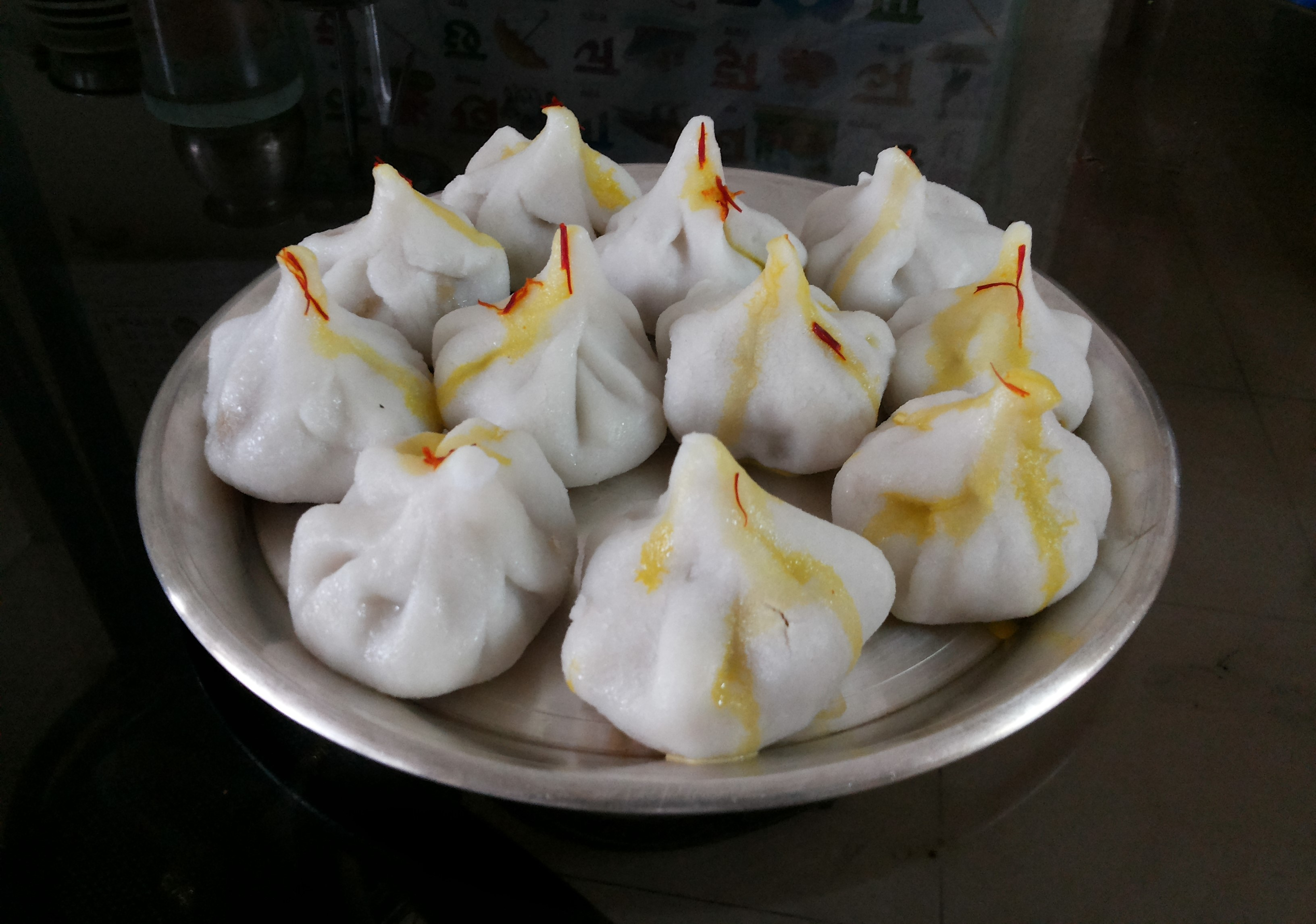 Modak offered to Lord Ganesh. These Modak are called "Ukadiche Modak" specially made of Coconuts and Sugar/Gool. This is a very special item made by Indians during the time of Ganesh Festical. There is special skillset and preparation is required for making and this comes only by practive. These Modak are hand made and cooked in the pressure cooker. These needs to be consumed immd. and comes under perishable category.